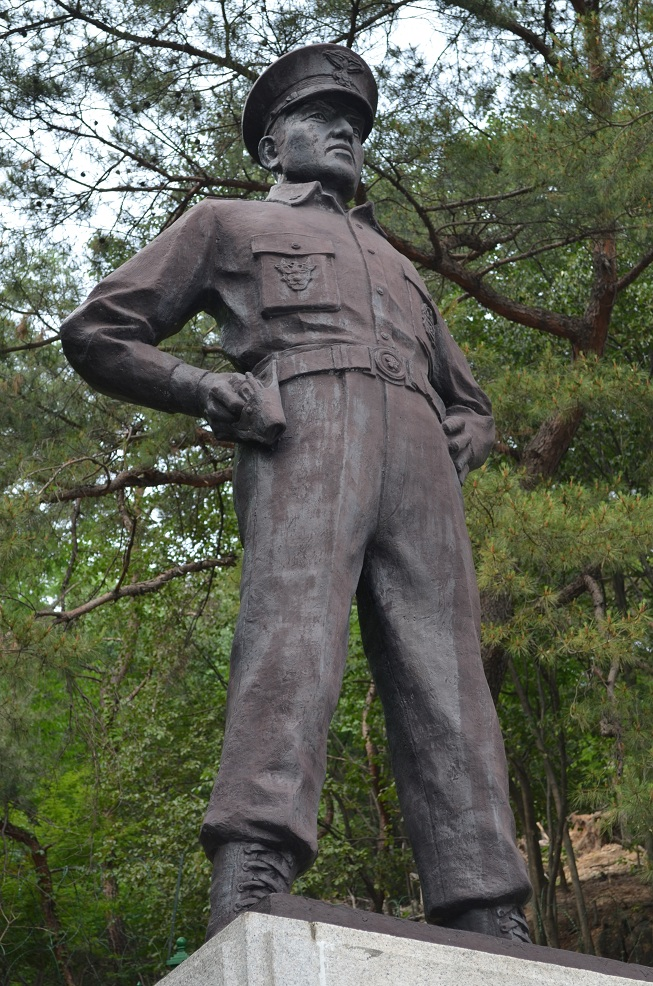 Changuimun Gate, also known as Northwest Gate or Buksomun, Seoul, South Korea. Photographed June 6, 2012. Photo shows monument for Choi Gyu-sik, who died defending South Korea during the Blue House Raid, January 21, 1968.